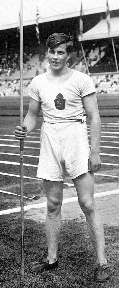 1912 Olympic Games, Stockholm, Sweden, Both Hands Javelin, Finland's Julius Saaristo, winner of the gold medal